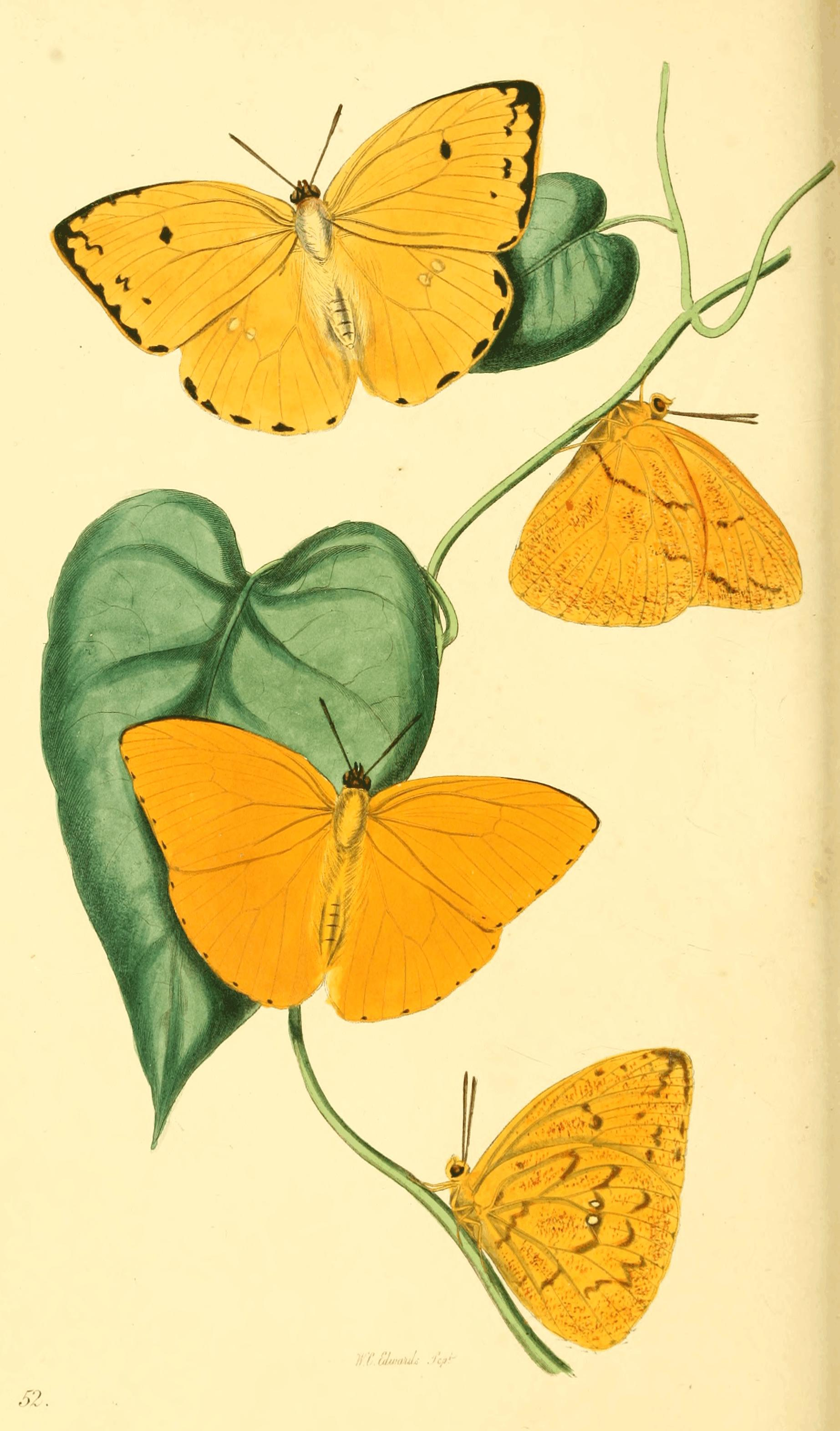 Plate 52. Colias argante. Orange Colias. Modern accepted name (2012) is Phoebis argante[1] (Swainson gives synonyms Papilio Hersilia Cramer, and P. argante Fab.).